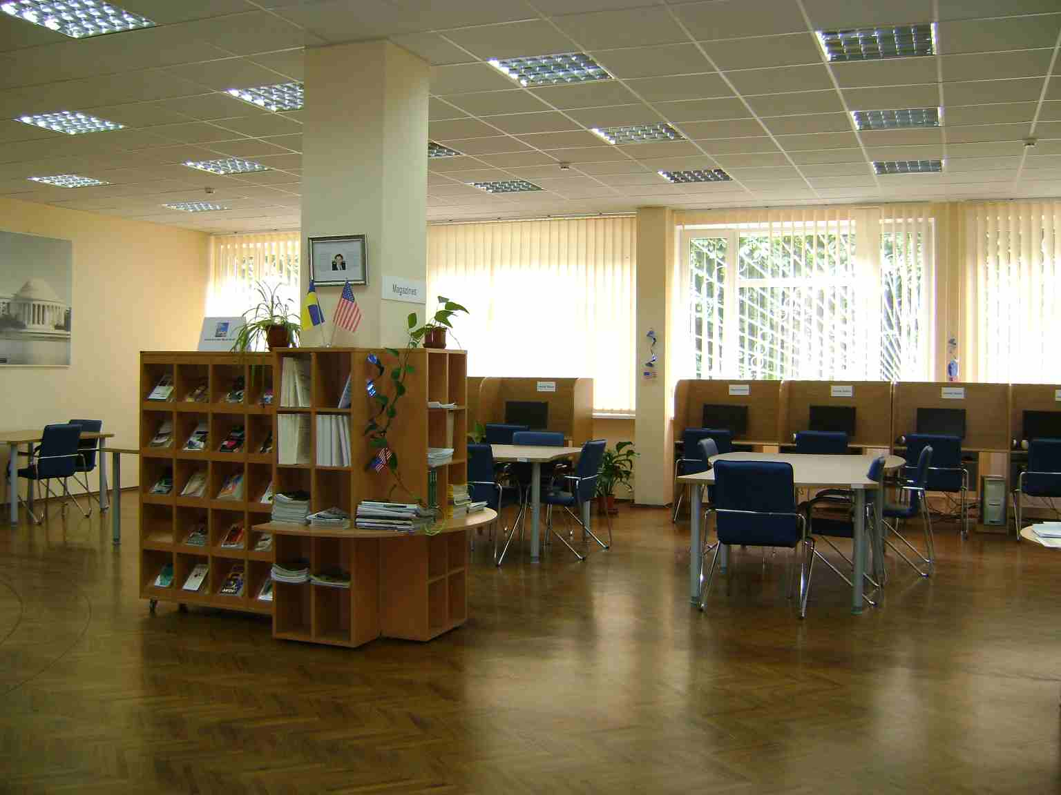 American Library view